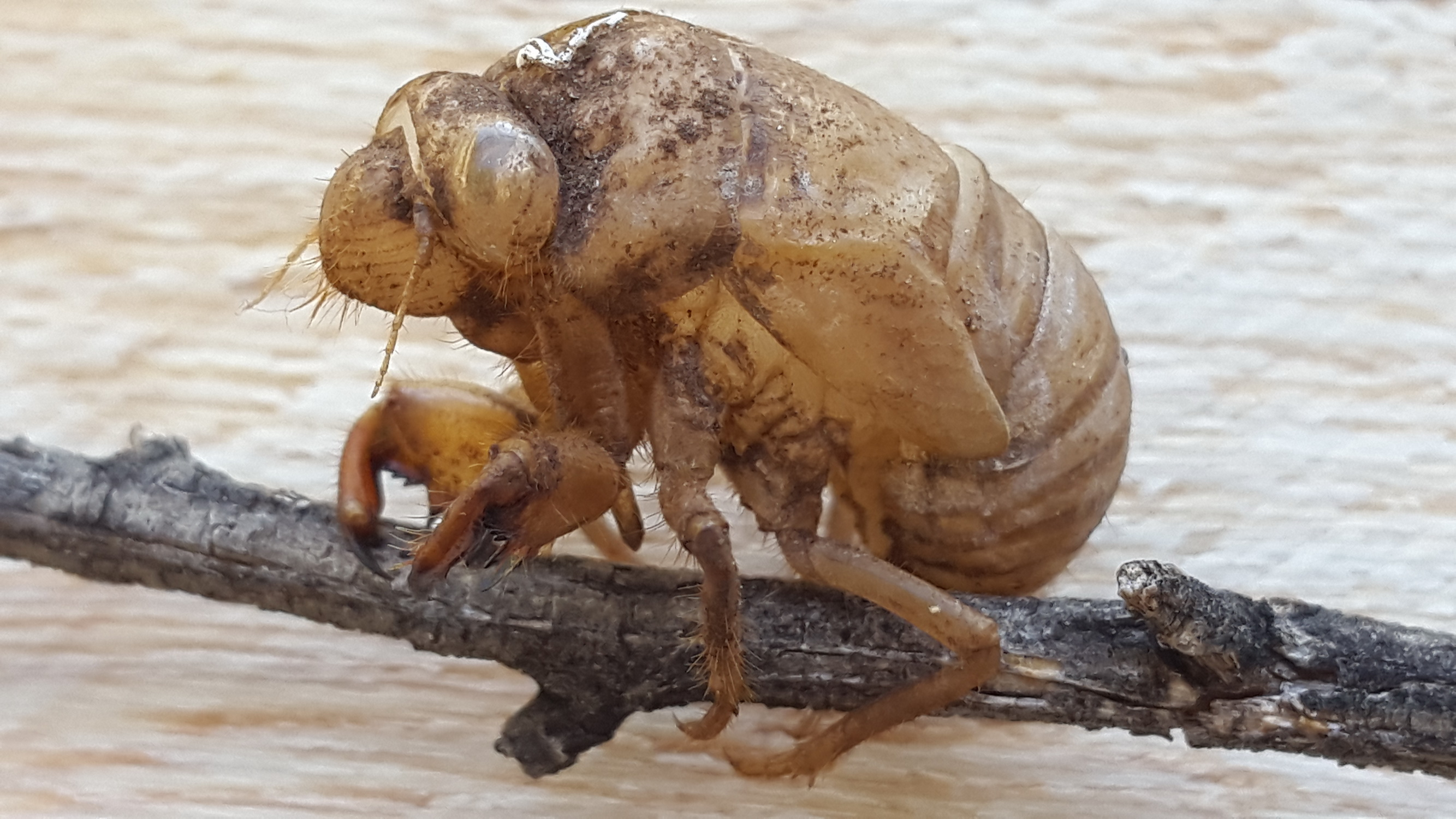 Exuviae of Platypleura sp. Magaliesberg, South Africa